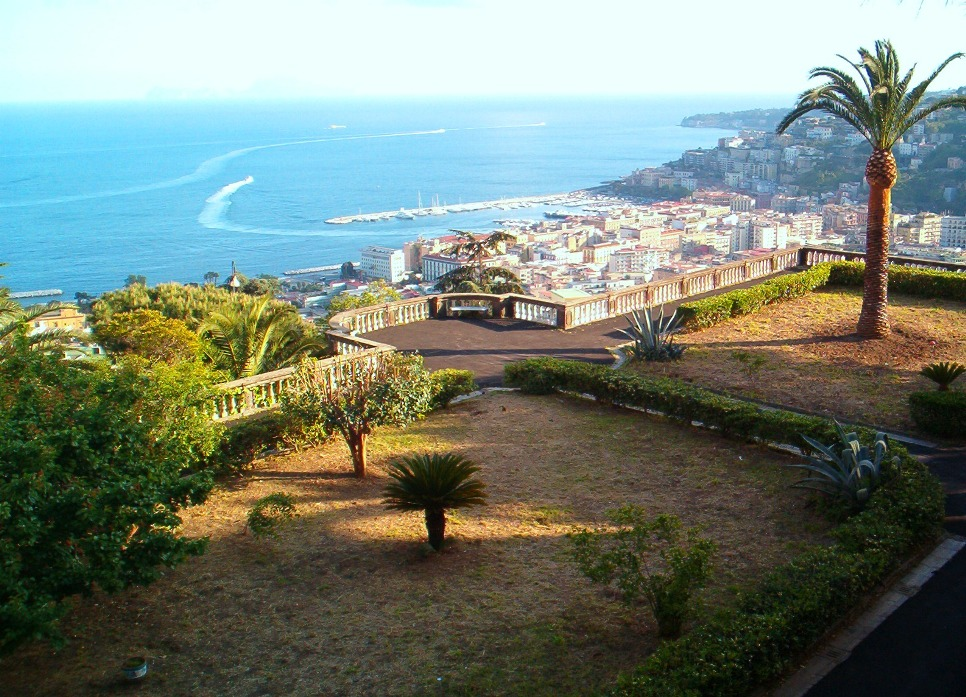 Villa Carafa - Vandeneynde garden